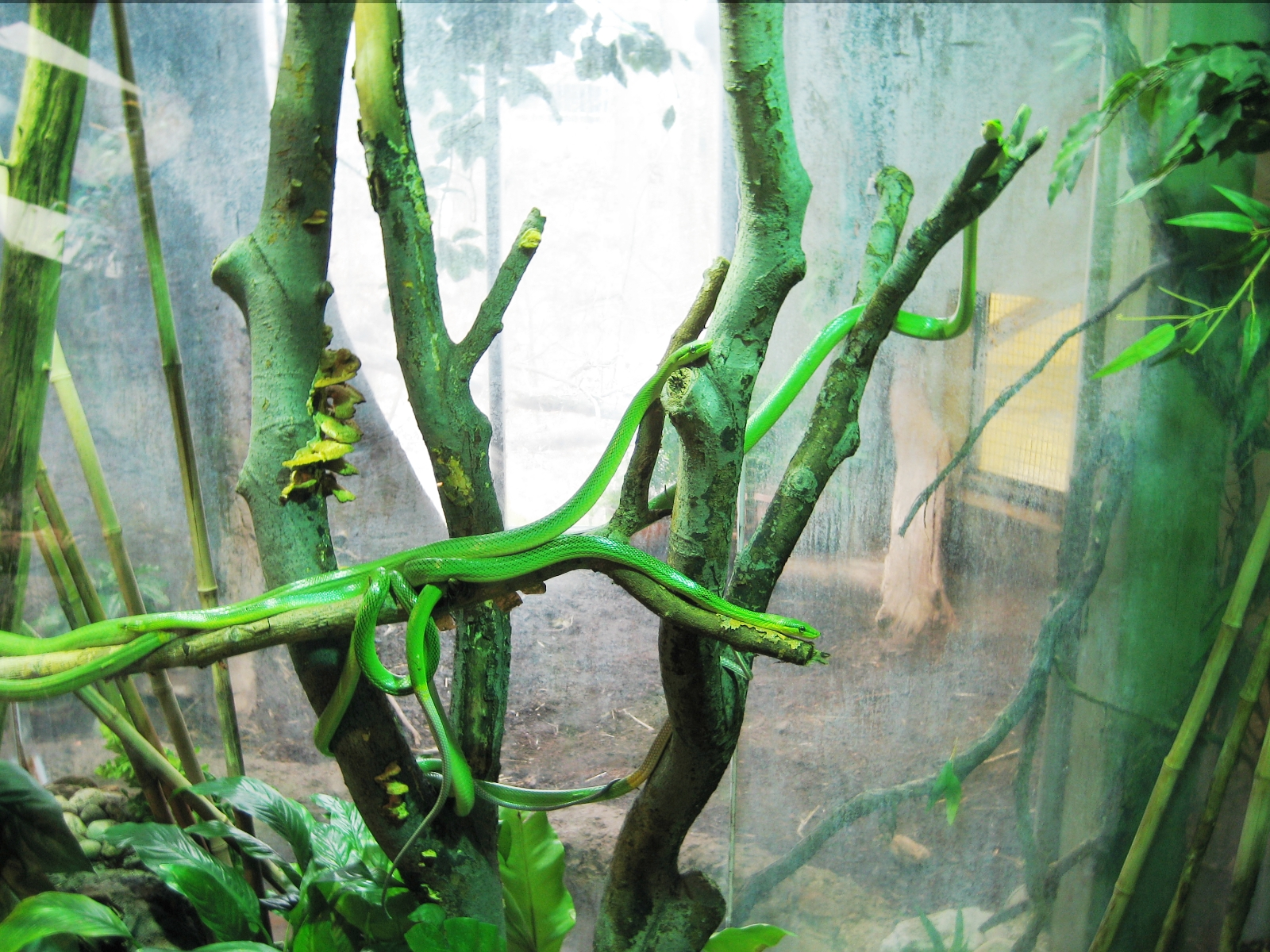 Several Red-tailed Green Ratsnake (Gonyosoma oxycephala) climbing along flora in the Malayan indoor exhibit at the Toronto Zoo.